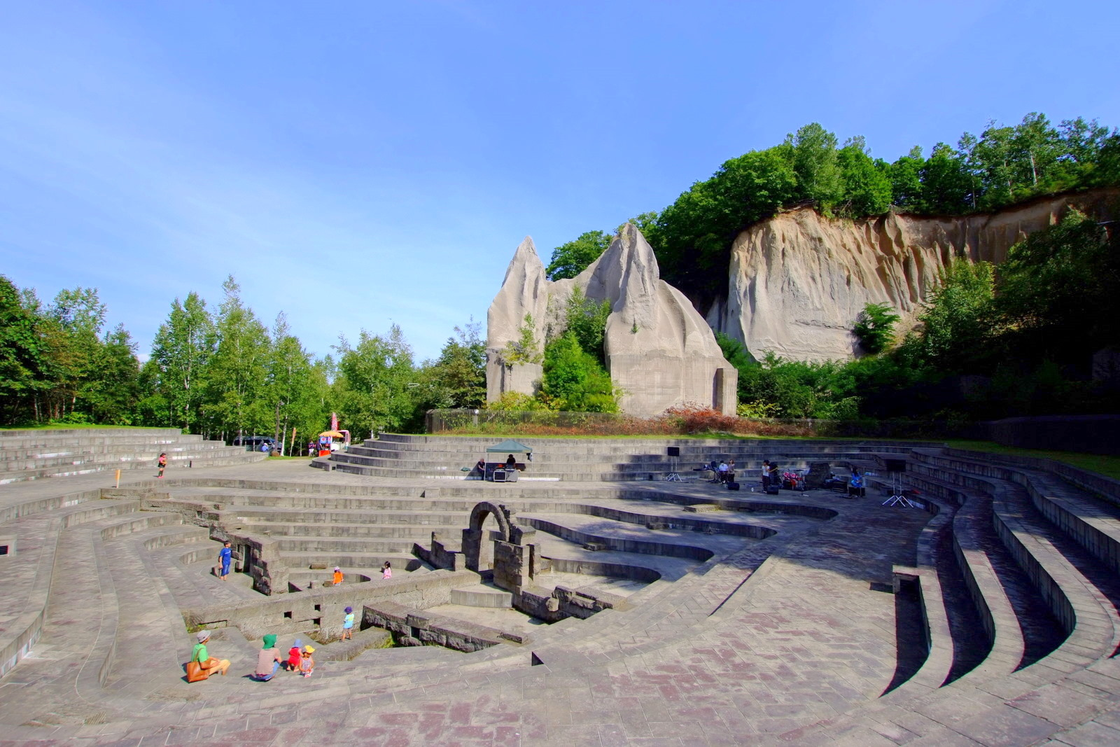 石川緑地(Ishiyama Green space)